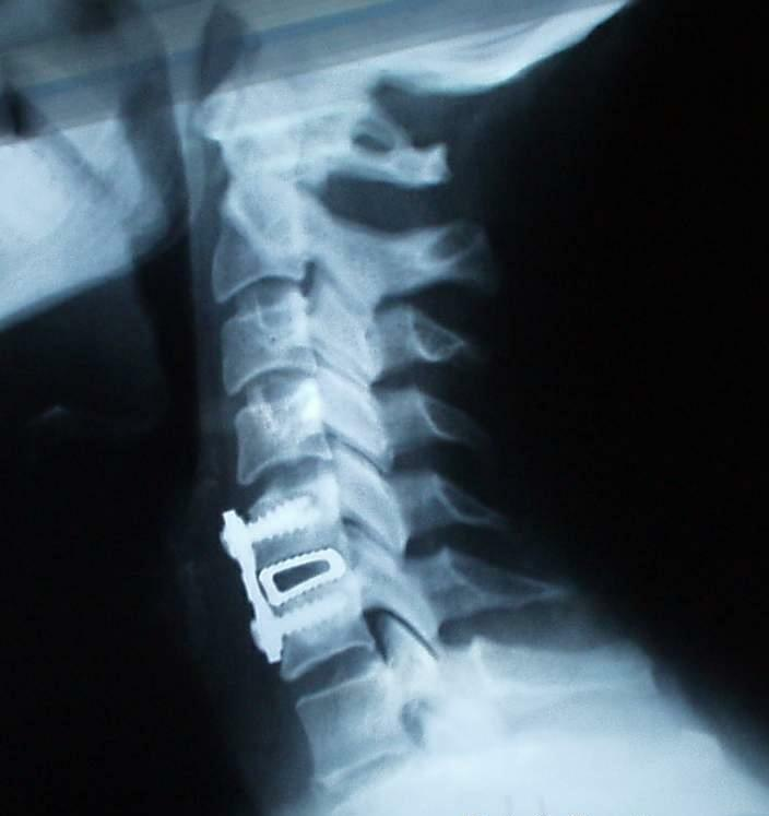 Neck disc-fusion